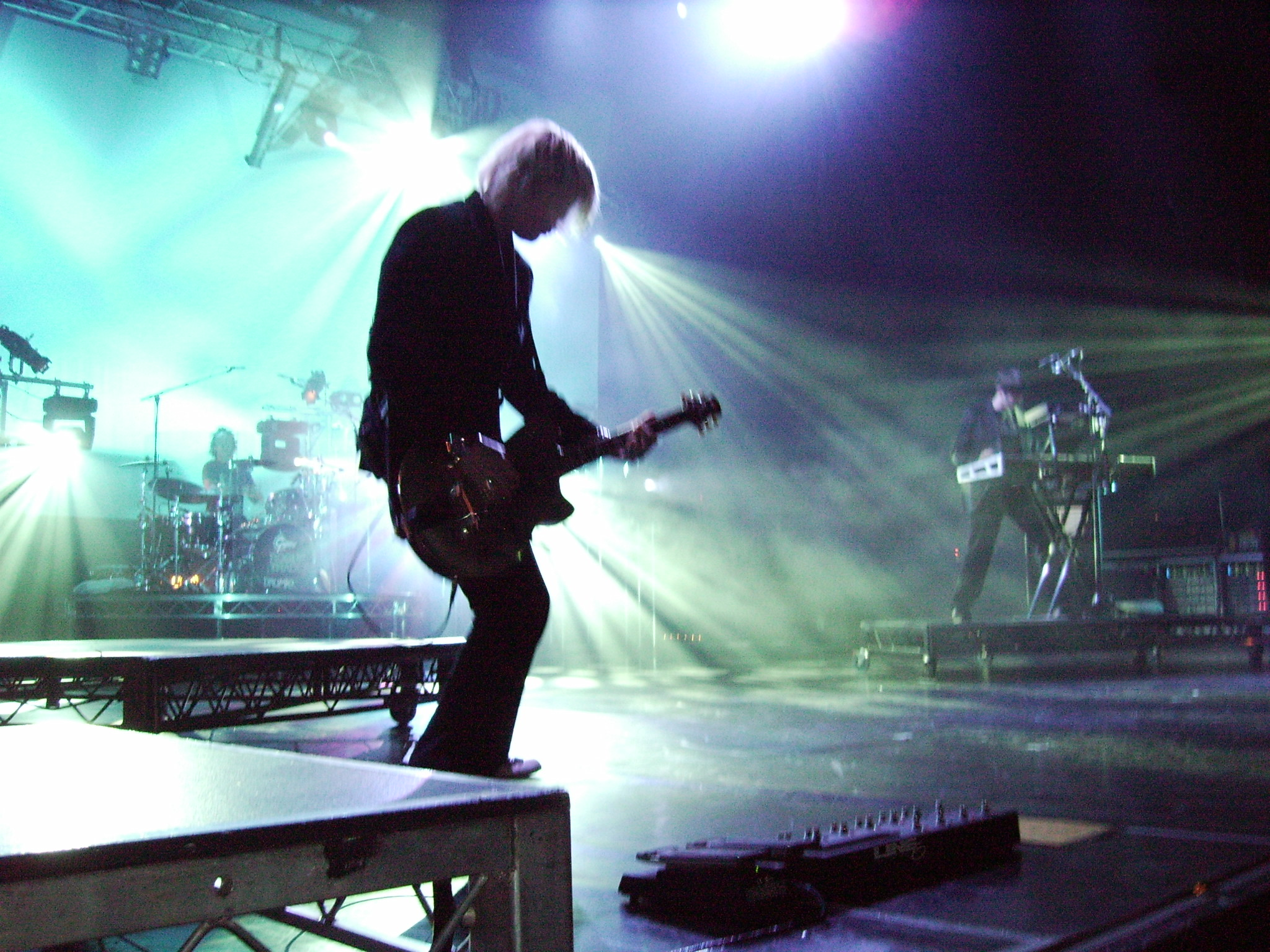 Rogue Traders in concert.